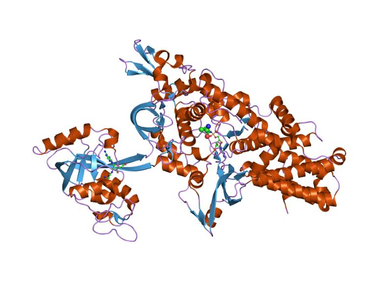 Cartoon representation of the molecular structure of protein registered with 1obc code.